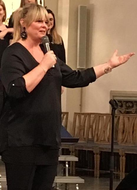 Alive Gospel & Britta Bergström with friends, Sunday 17 mars 2019 at 18:06PM, Sankta Maria Magdalena church, Stockholm